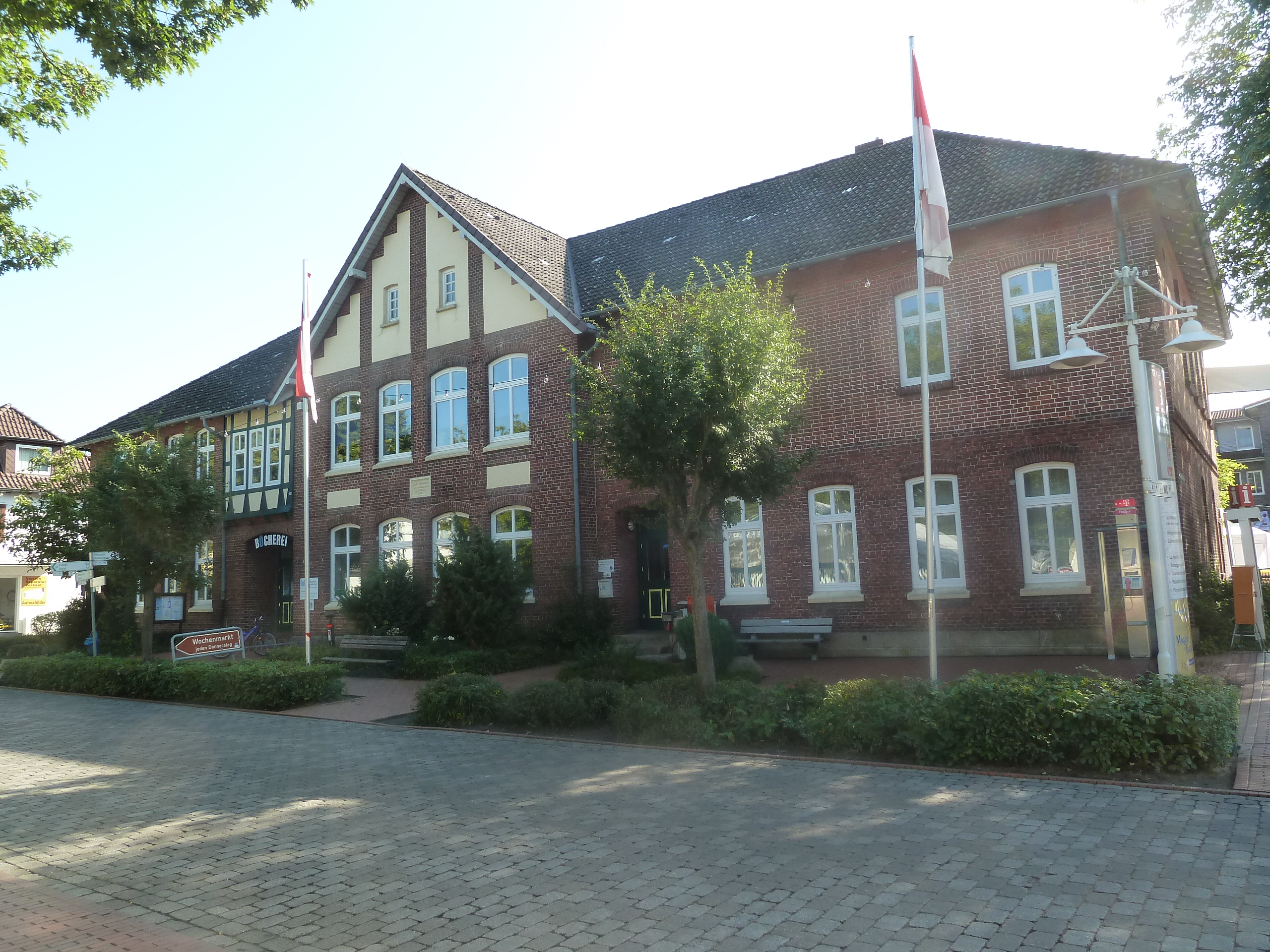 Germany, Schneverdingen, building "Alte Schule", today building of library and music school